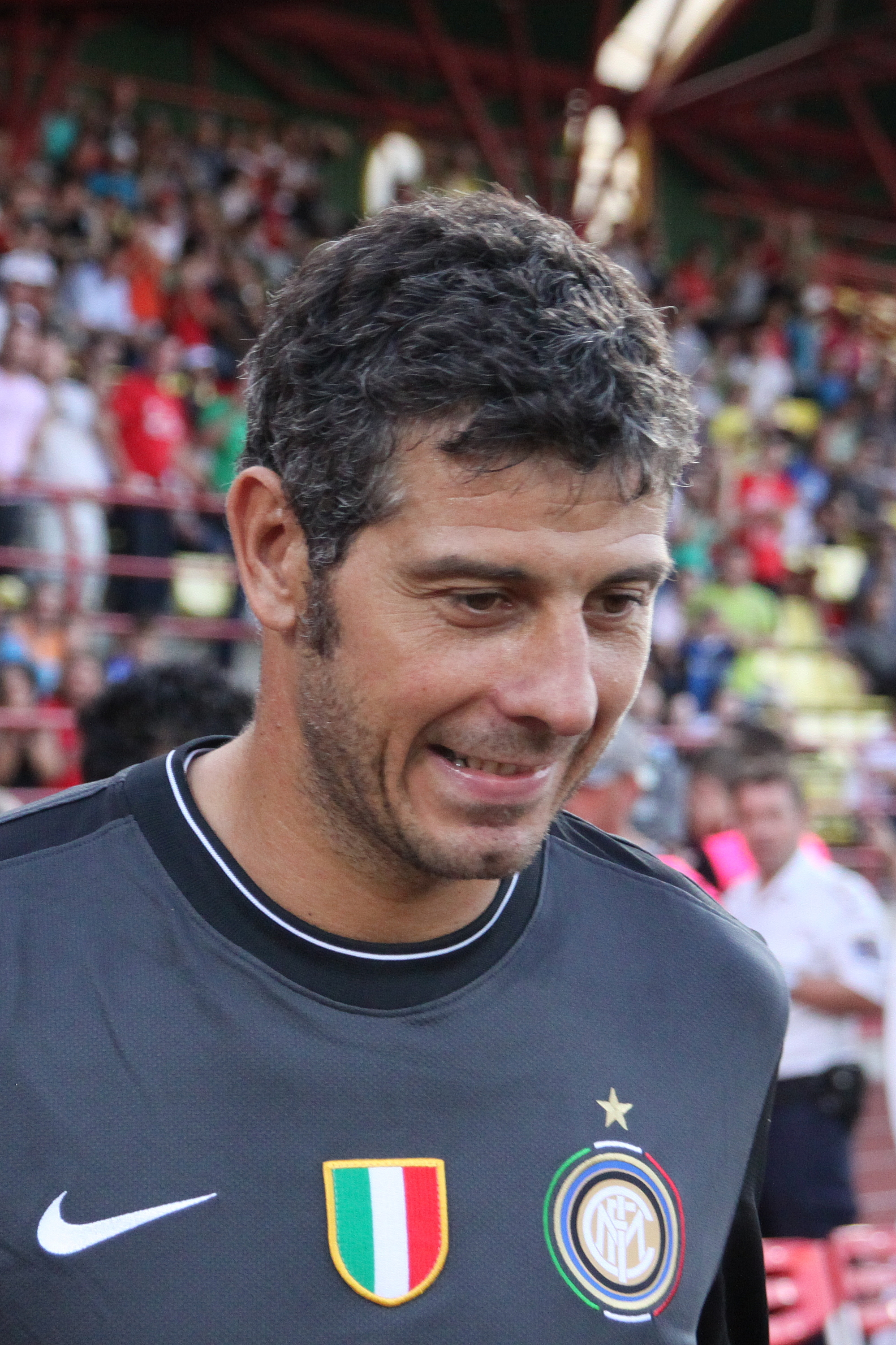 Francesco Toldo - F.C. Internazionale Milano